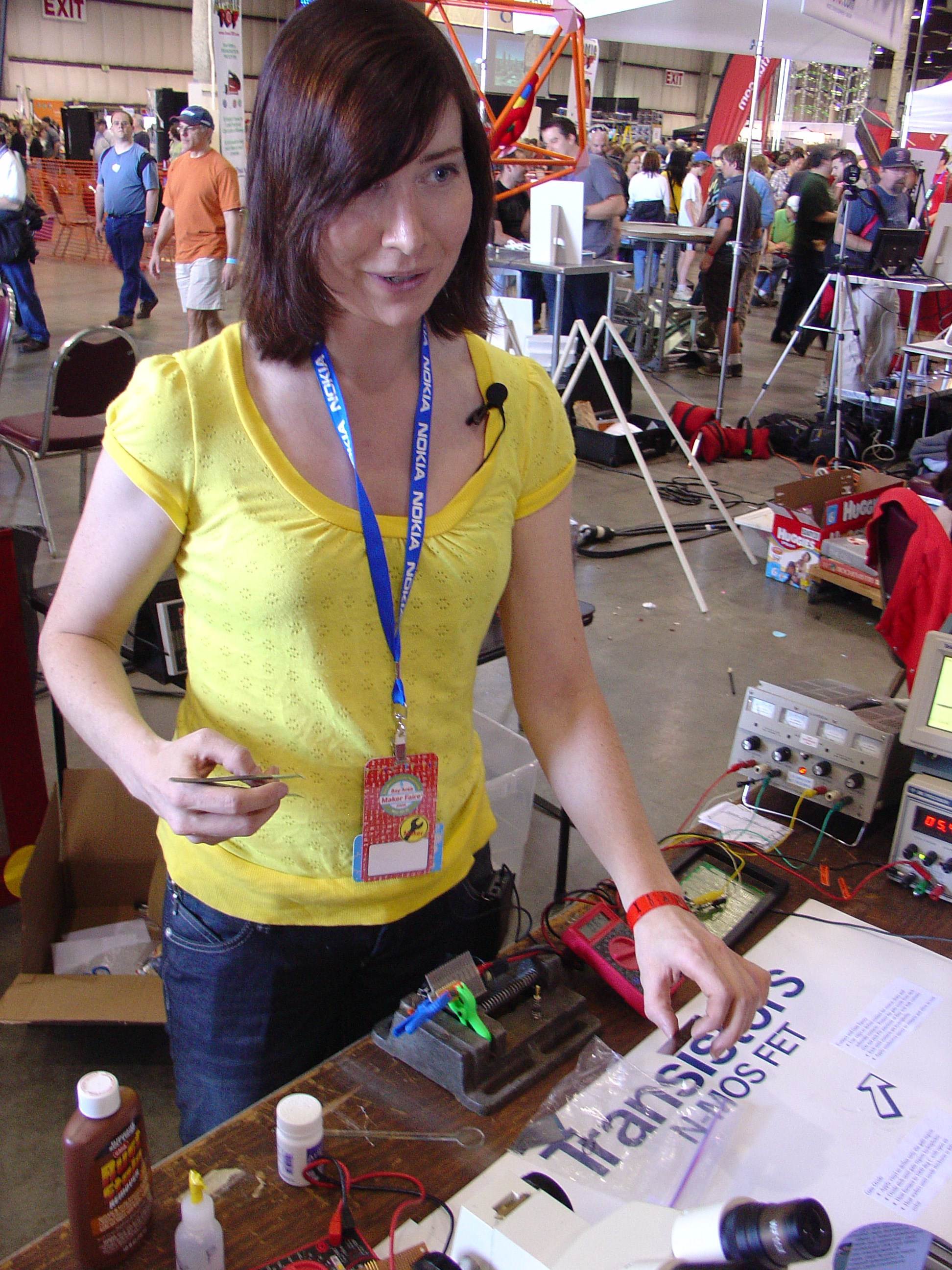 Jeri Ellsworth shows how to make MOSFETs at home.